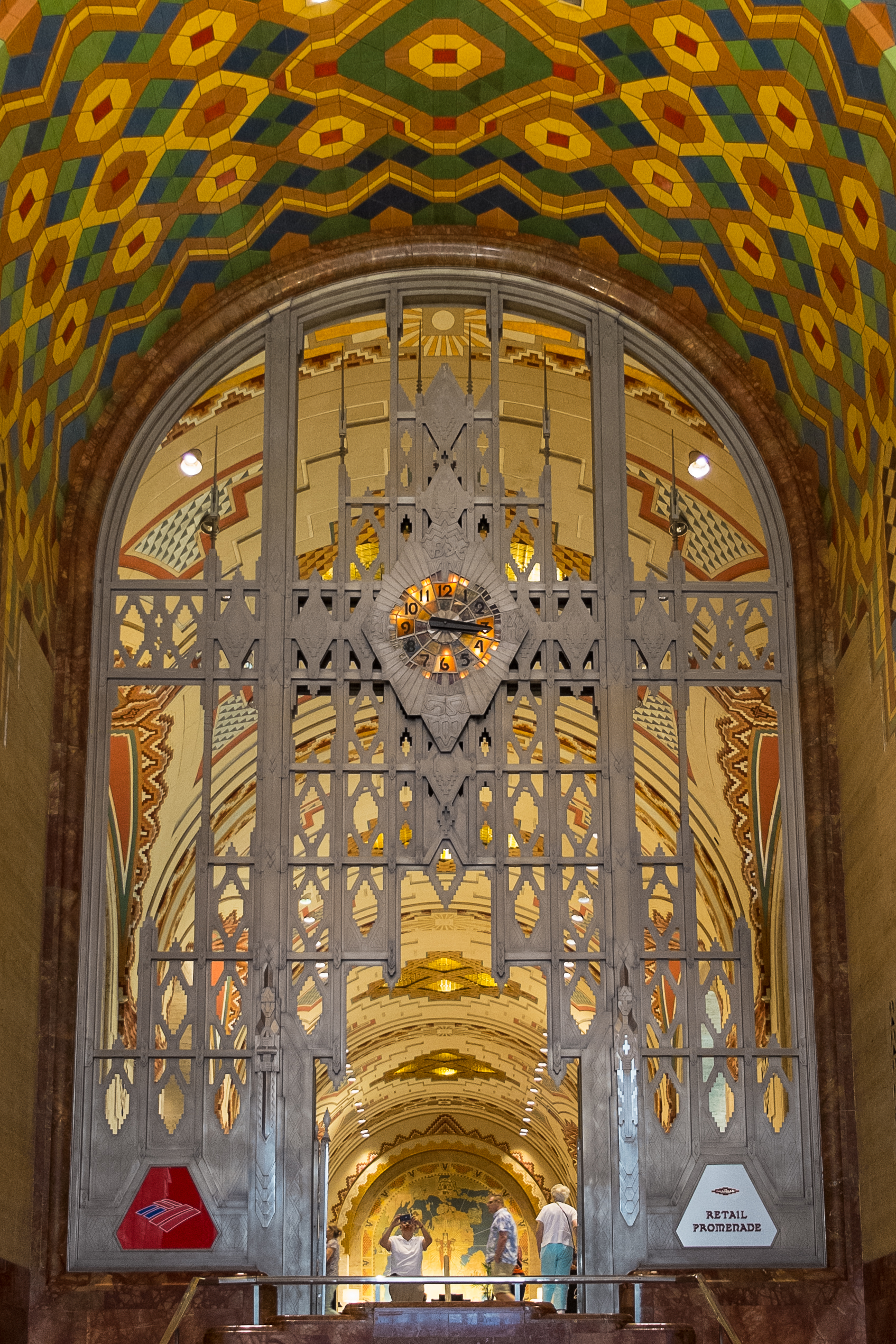 Guardian Building, Detroit, Michigan, United States. Interior picture. Clock.